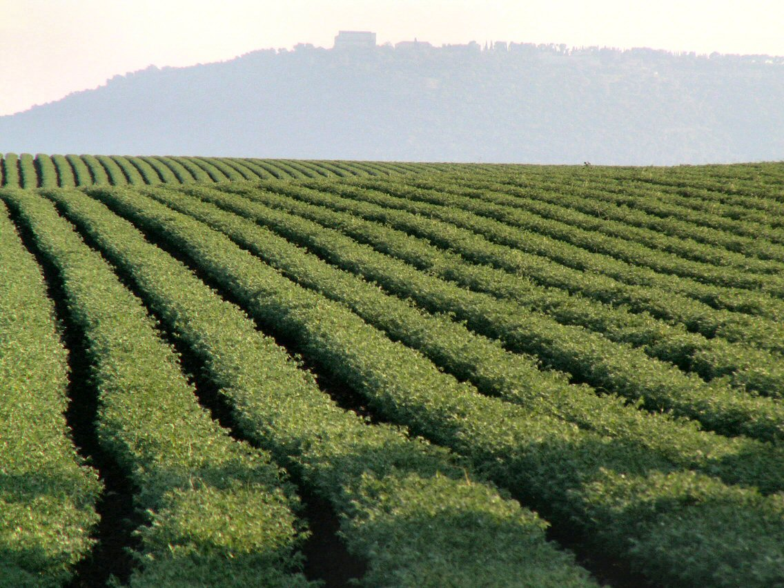 Chickpea (Cicer arietinum) field in the Lower Galilee, Israel. In the background mount Tabor and the Franciscan church.